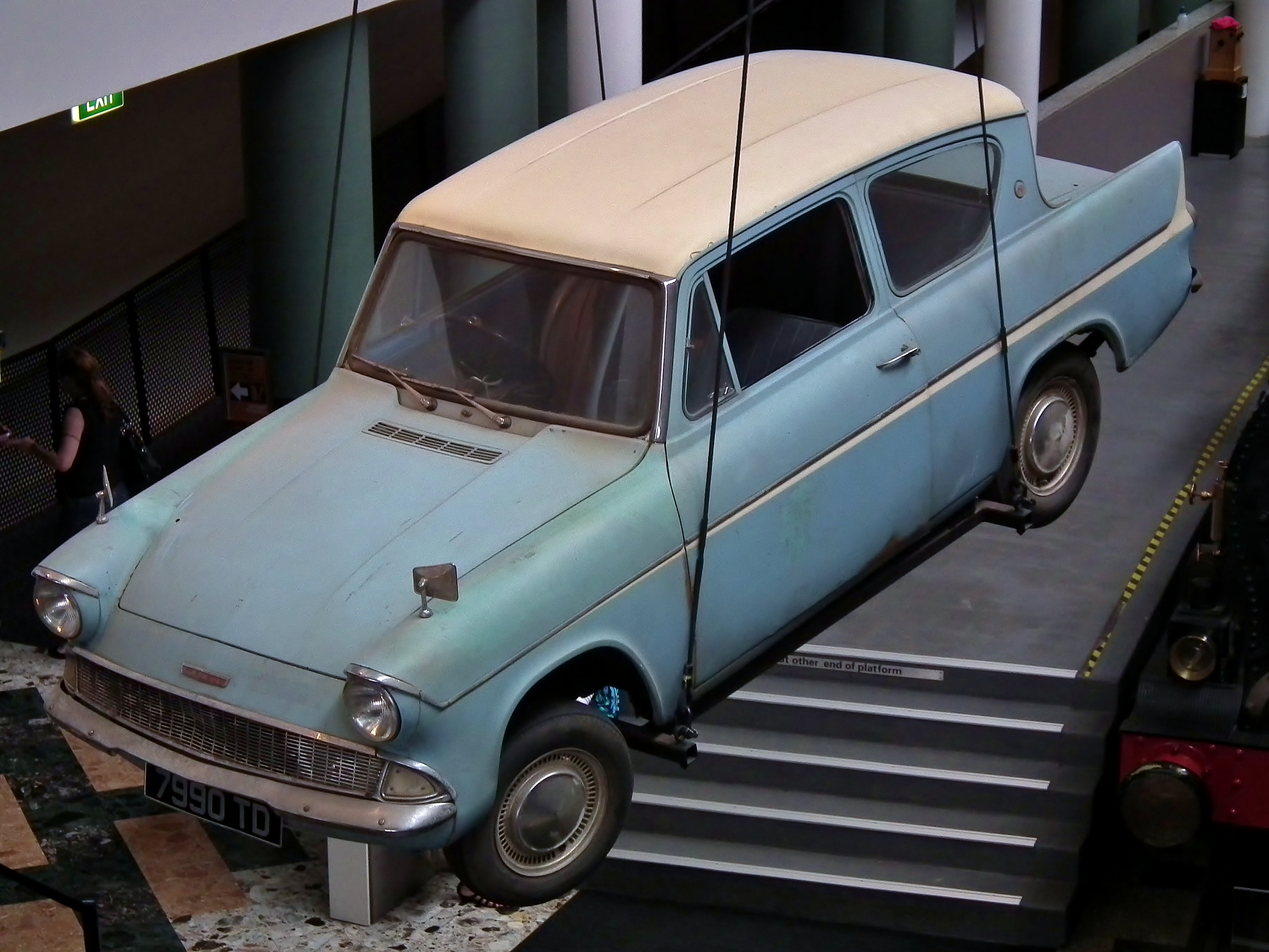 Ford Anglia 105E Deluxe sedan - Harry Potter Flying Car. This is one of the original cars used in the making of the movie "Harry Potter and the Chamber of Secrets". On display at Sydney's Powerhouse Museum as part of the Harry Potter Exhibition of movie props and costumes. Another of the original prop cars was on display at the National Motor Museum Beaulieu in the UK.